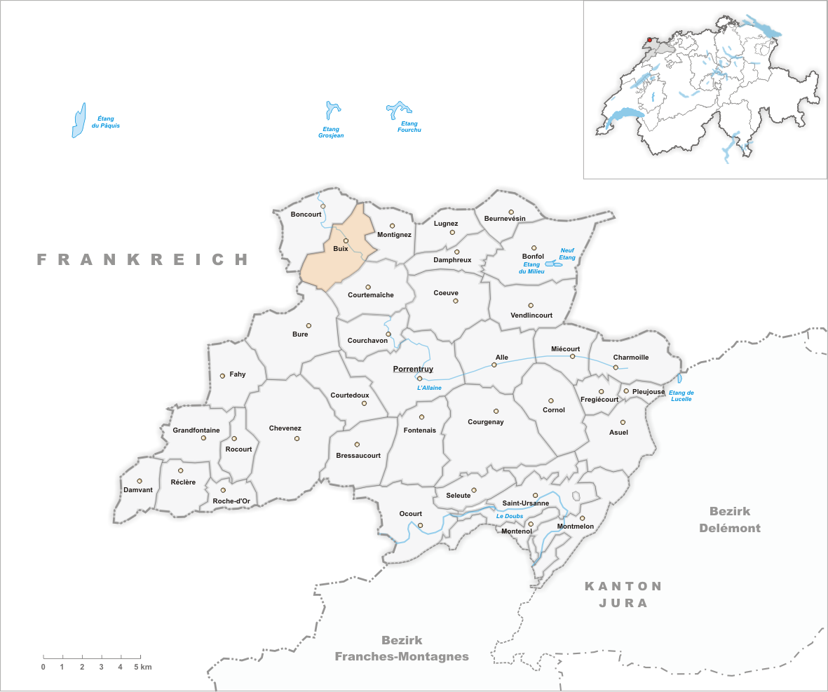 Municipality Buix Artist: Tschubby